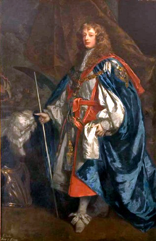 Portrait of Charles Stewart, 3rd Duke of Richmond, 6th Duke of Lennox, 12th lord of Aubigny in the robes of the Order of the Garter